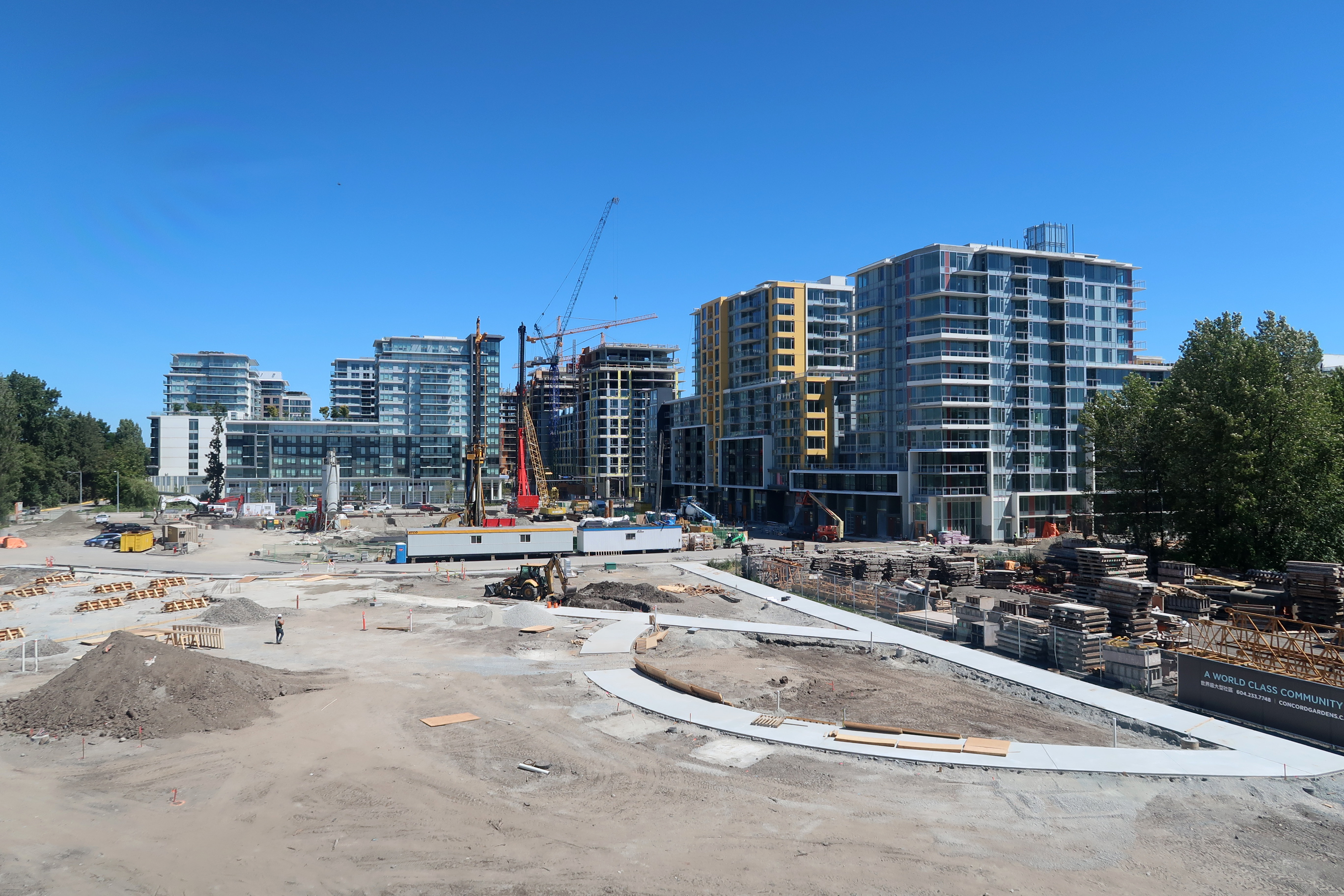 Apartment construction site, Richmond, BC